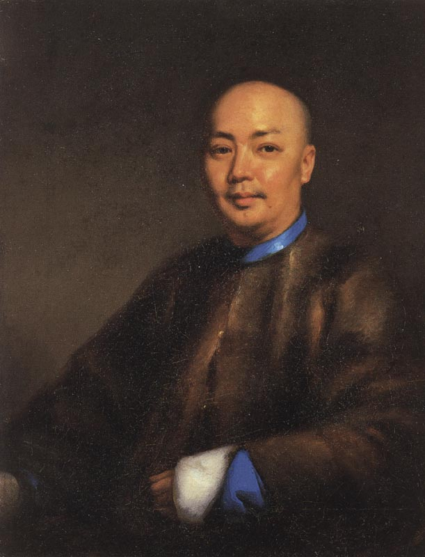 Self-portrait of Lam Qua.